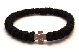 Black Christian Orthodox prayer rope bracelet